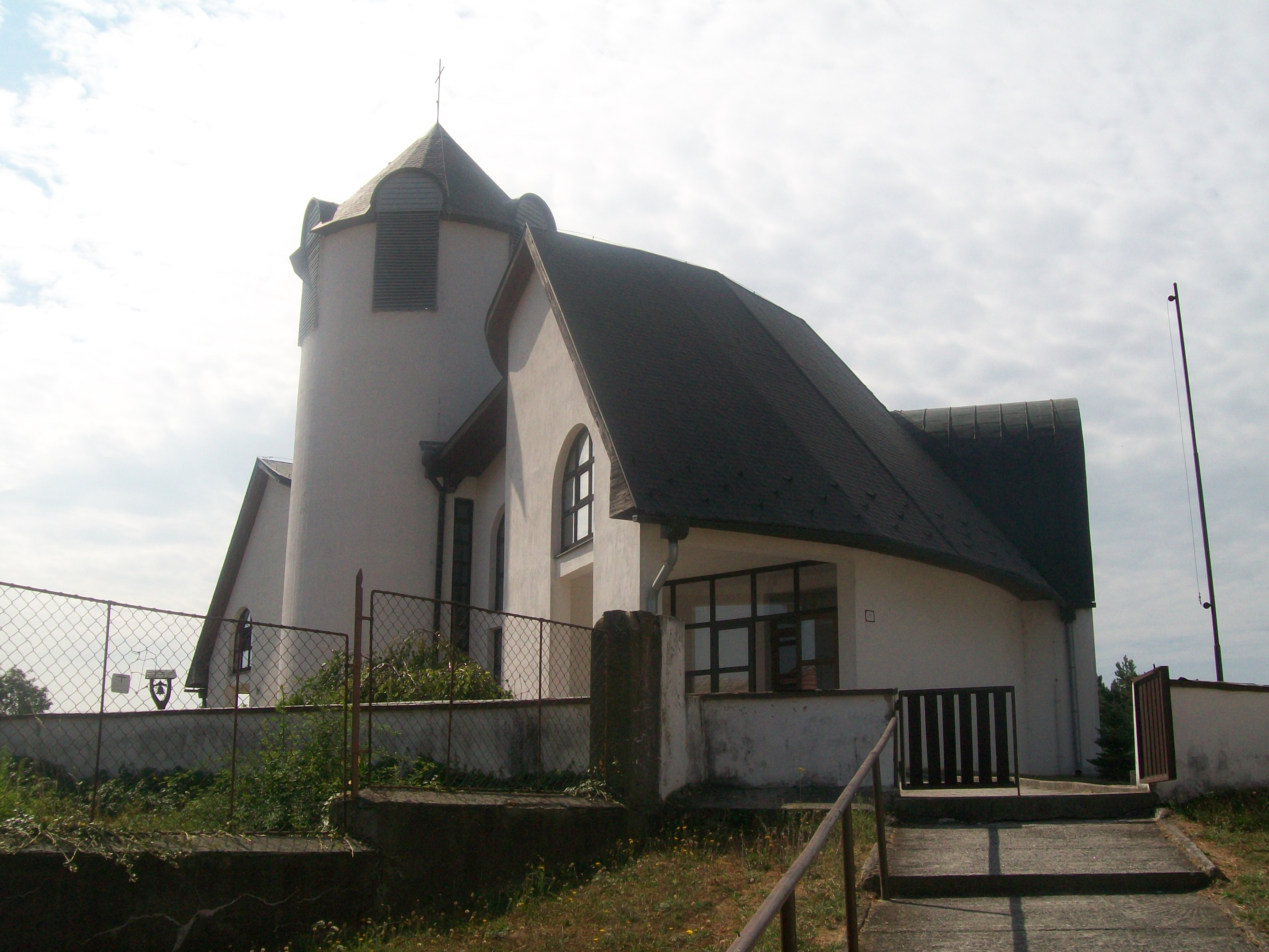 Lutheran Church in Tomášovce